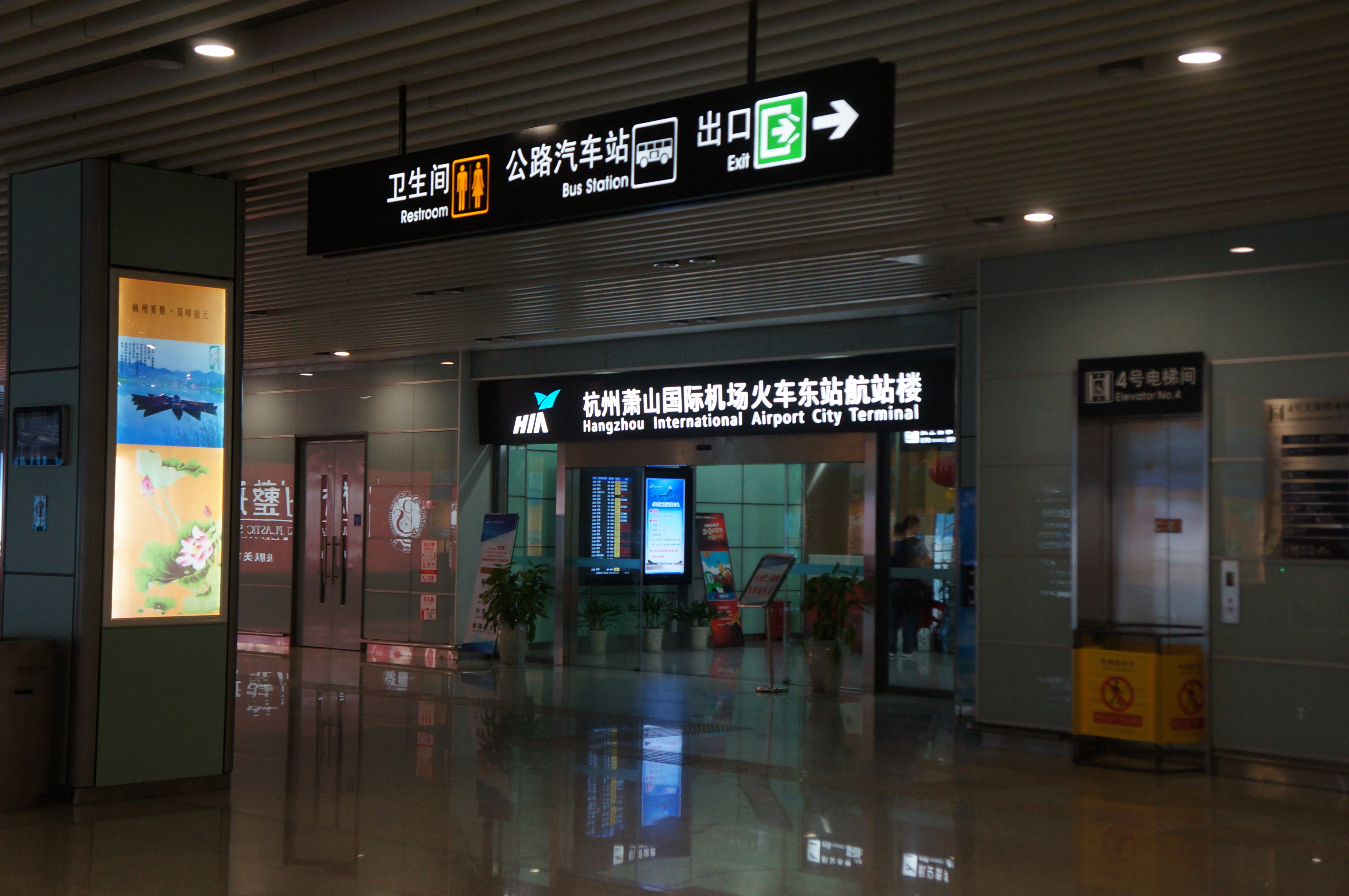 201607 HGH Airport City Terminal at HGH Station